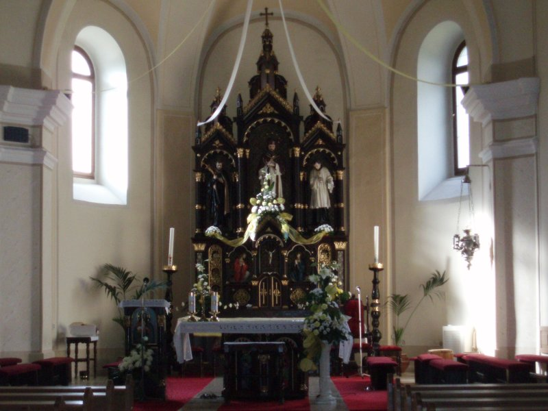 Horná Súča, Slovakia